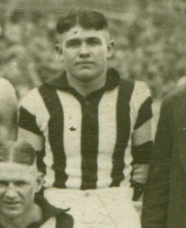 Photograph of George Tatham from 1931-1933